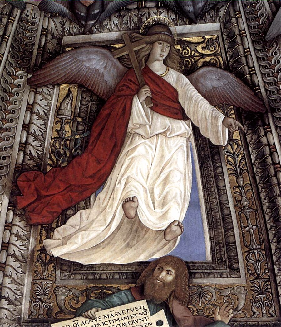 Angel by Melozzo da Forli - Fresco of the Basilica of Santa Casa, Loreto